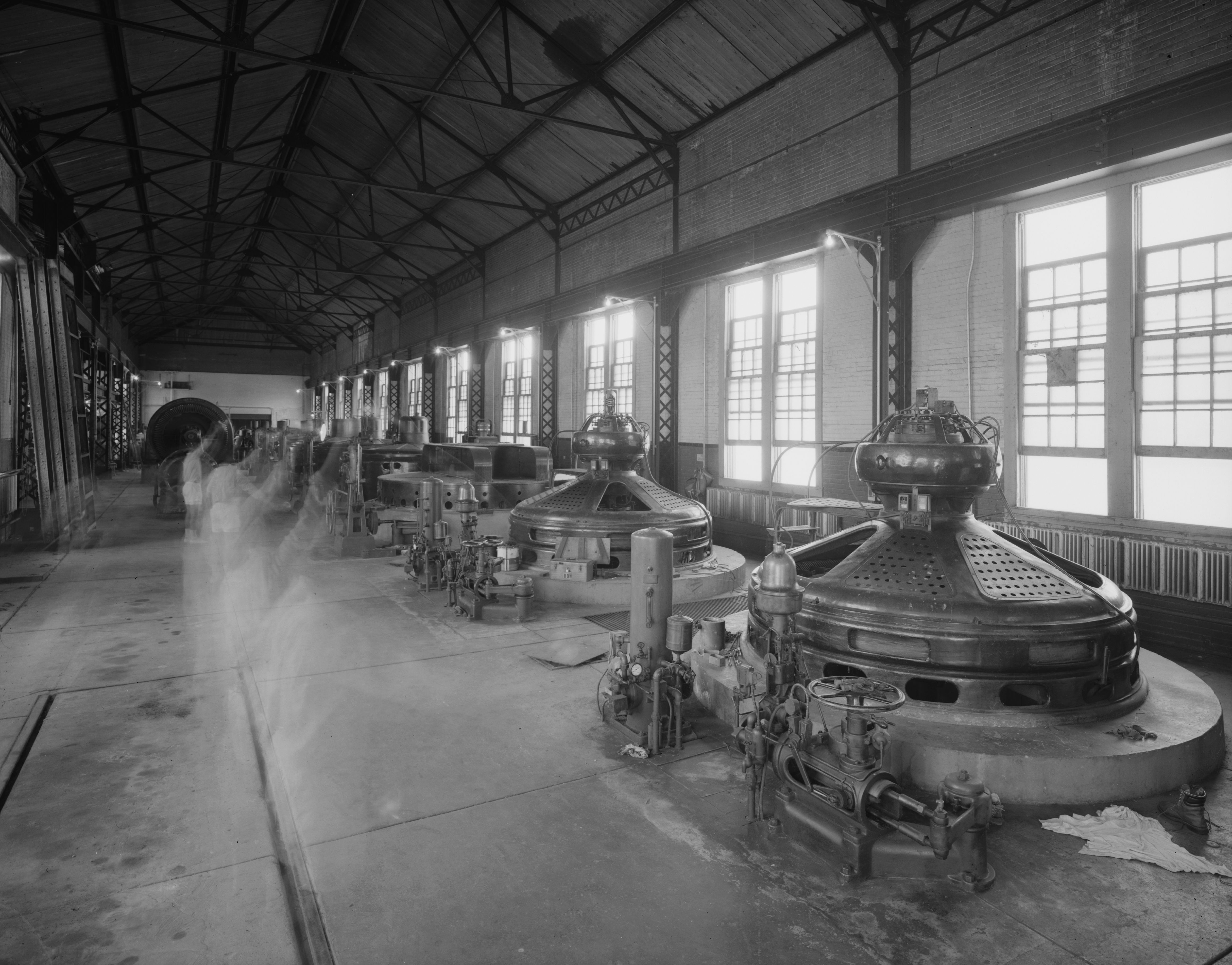 Marseilles Hydro Plant, Marseilles, IL. Interior view showing original leffel and Westinghouse turbine-generator units.